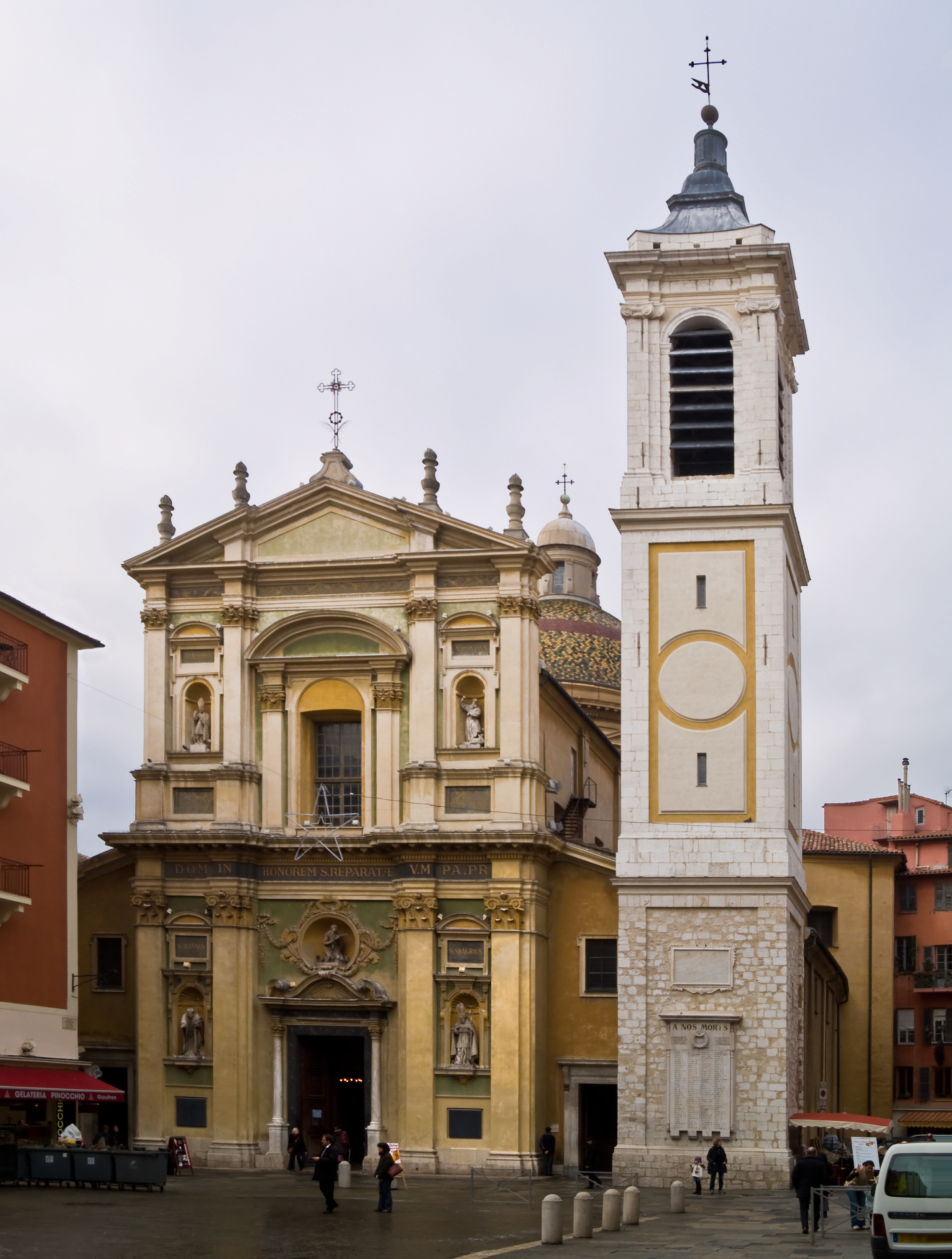 The cathedral dedicated to Saint Reparata in Nice, on the French Riviera (Alpes-Maritimes, Provence-Alpes-Côte d’Azur, France).